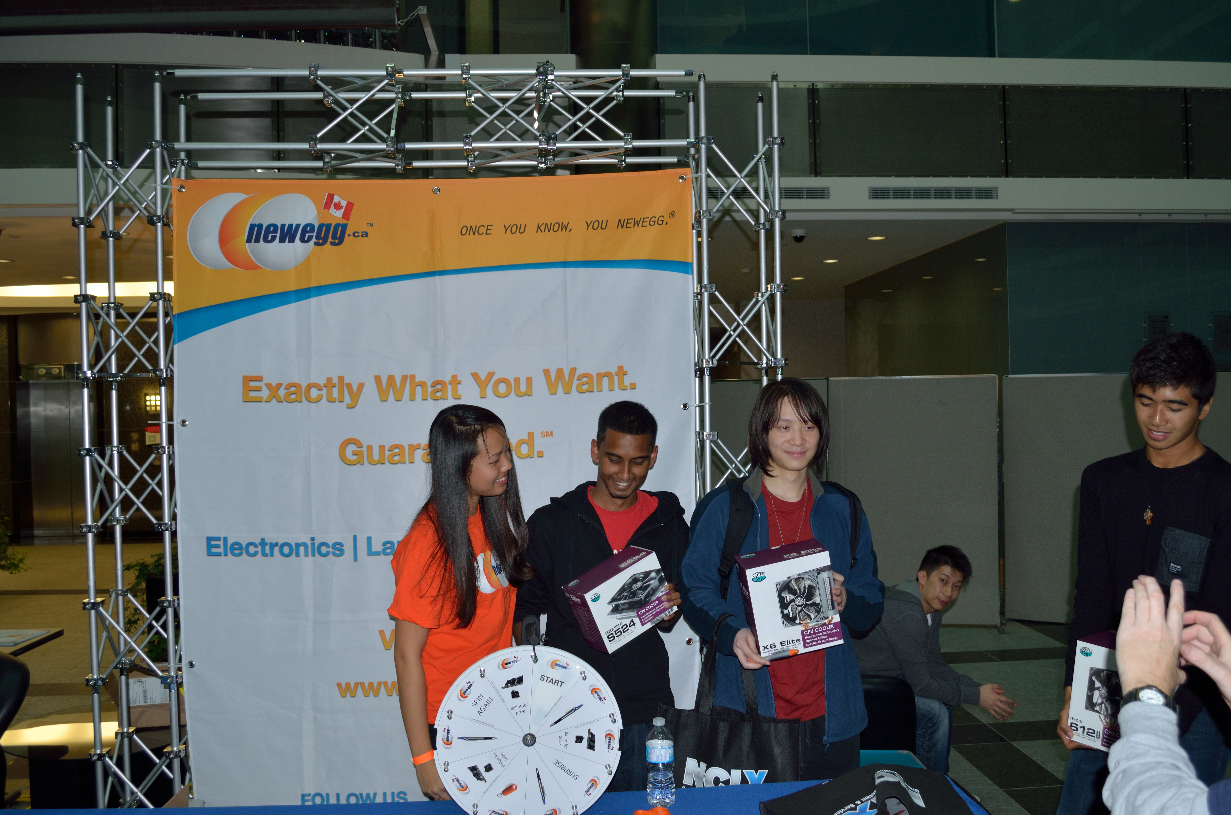 Newegg booth at AMD ExtravaLANza 2012.